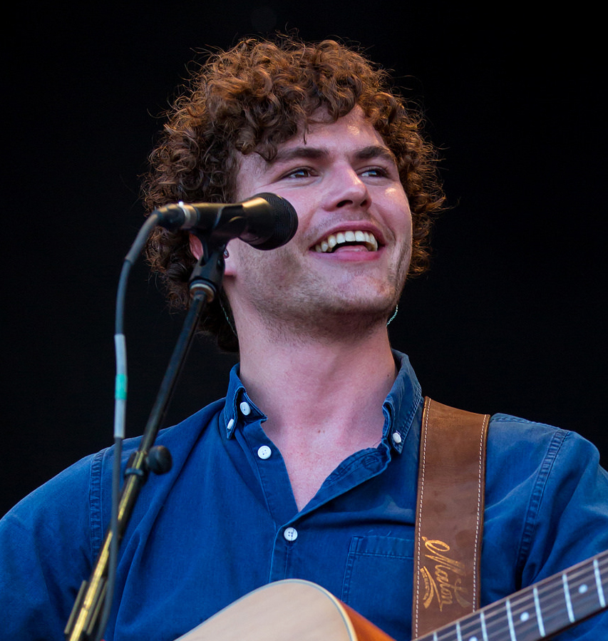 Vance Joy. Austin City Limits Music Festival overview from Friday, October 9 through Sunday, October 11, 2015.